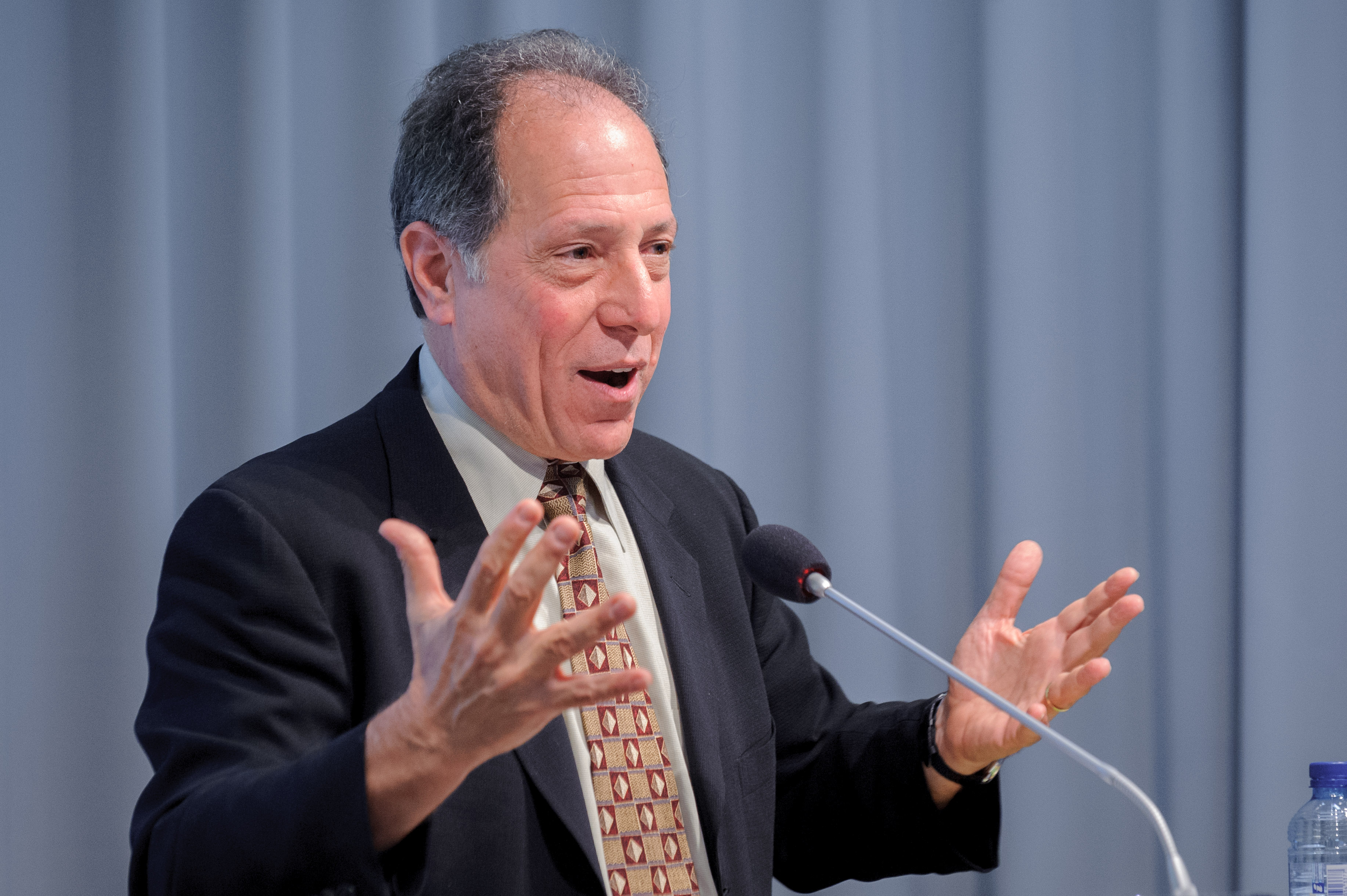 Michael Kimmel PHD (Stony Brook University New York, USA), Foto